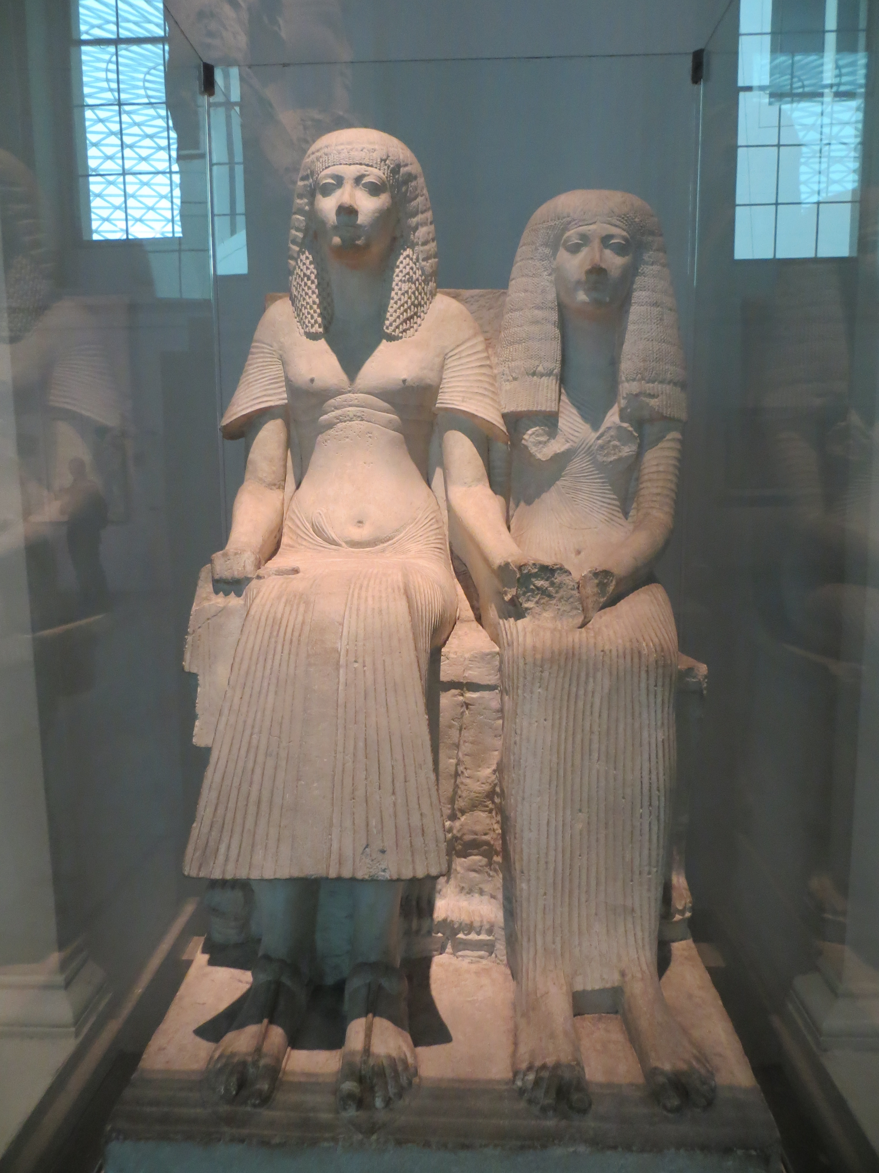 Statue of Ancient Egyptian Couple, Horemheb and Amenia, in the British Museum